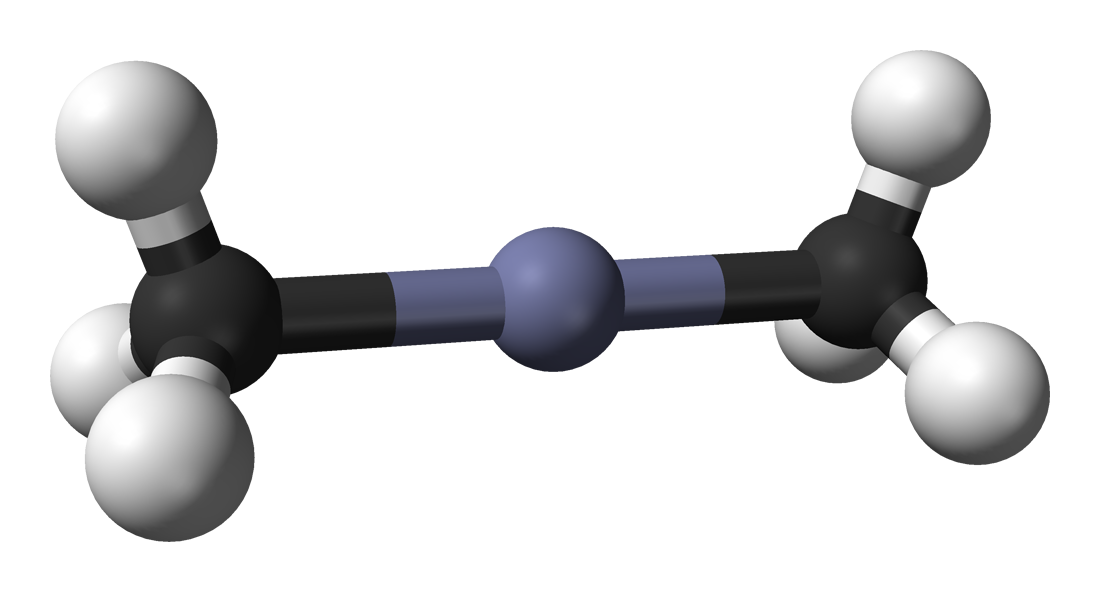 Ball-and-stick model of the dimethylzinc molecule, Zn(CH3)2